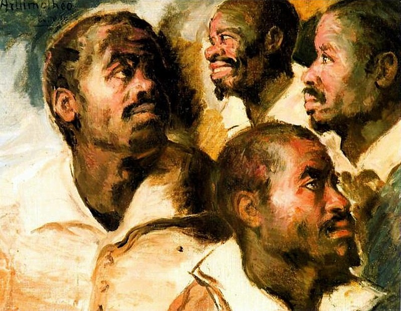 Study of Four Heads, w.d. Oil on canvas.